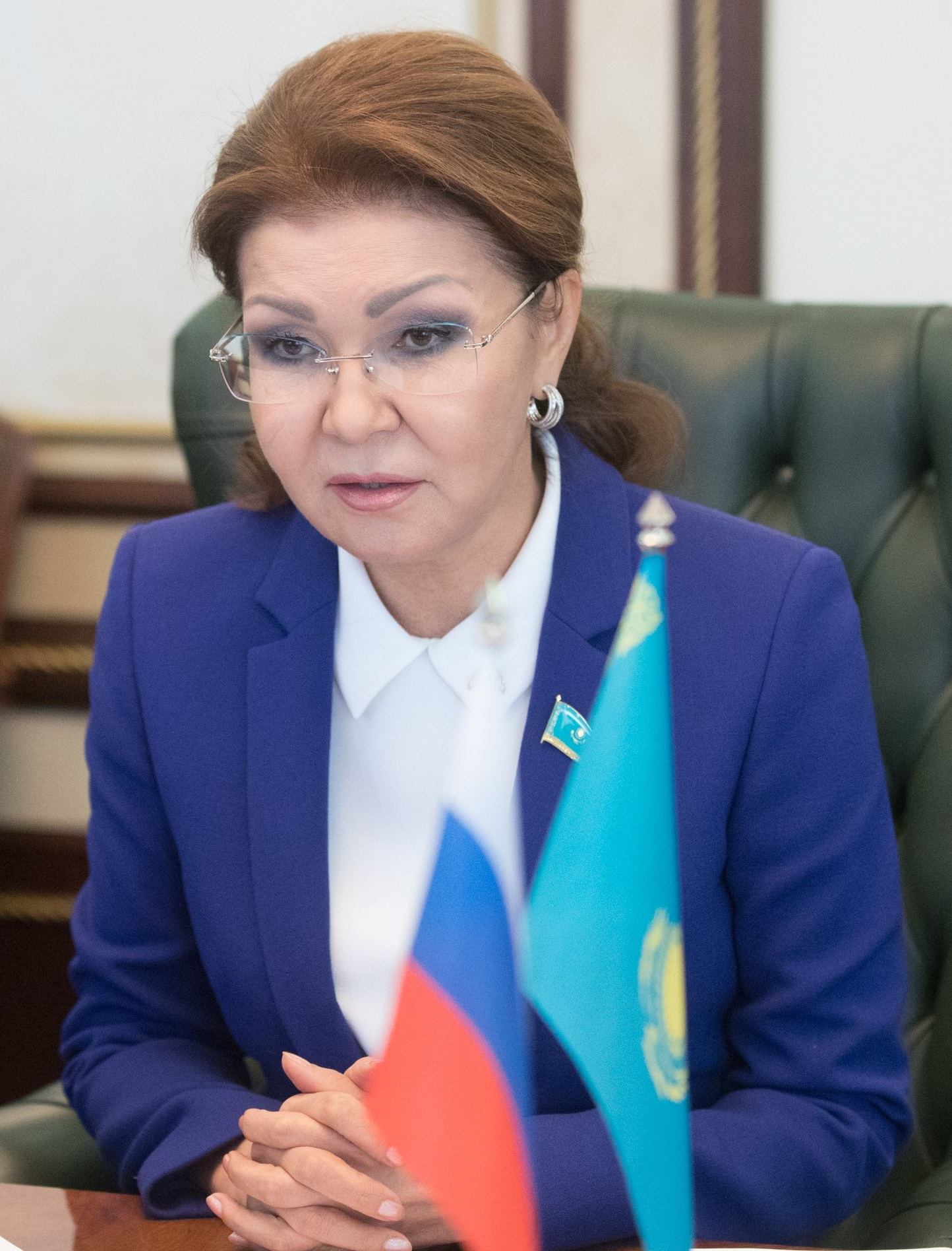 Dariga Nazarbayeva